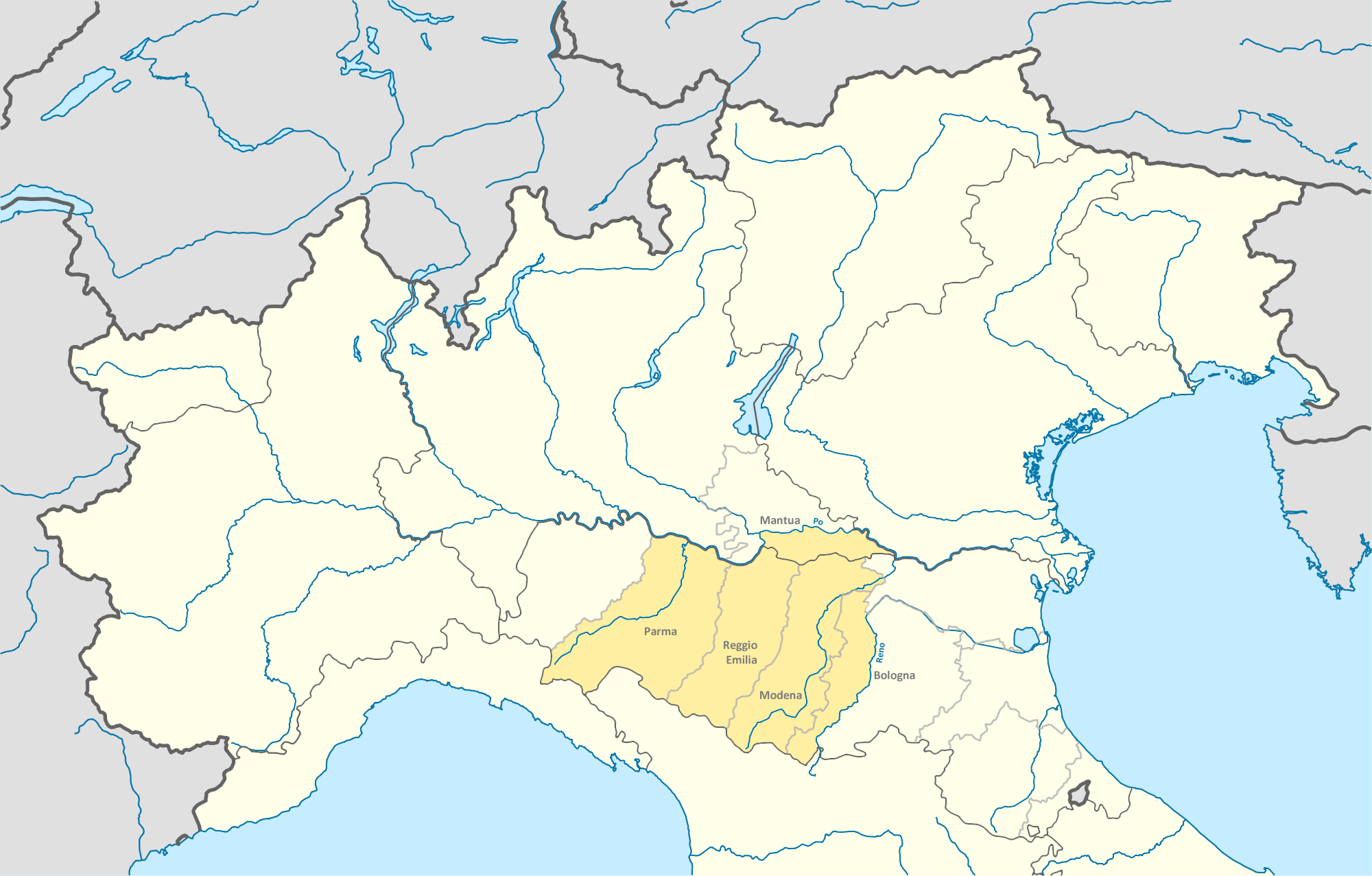 The region in which Parmigiano-Reggiano can be produced, according to EU and Italian PDO legislation.